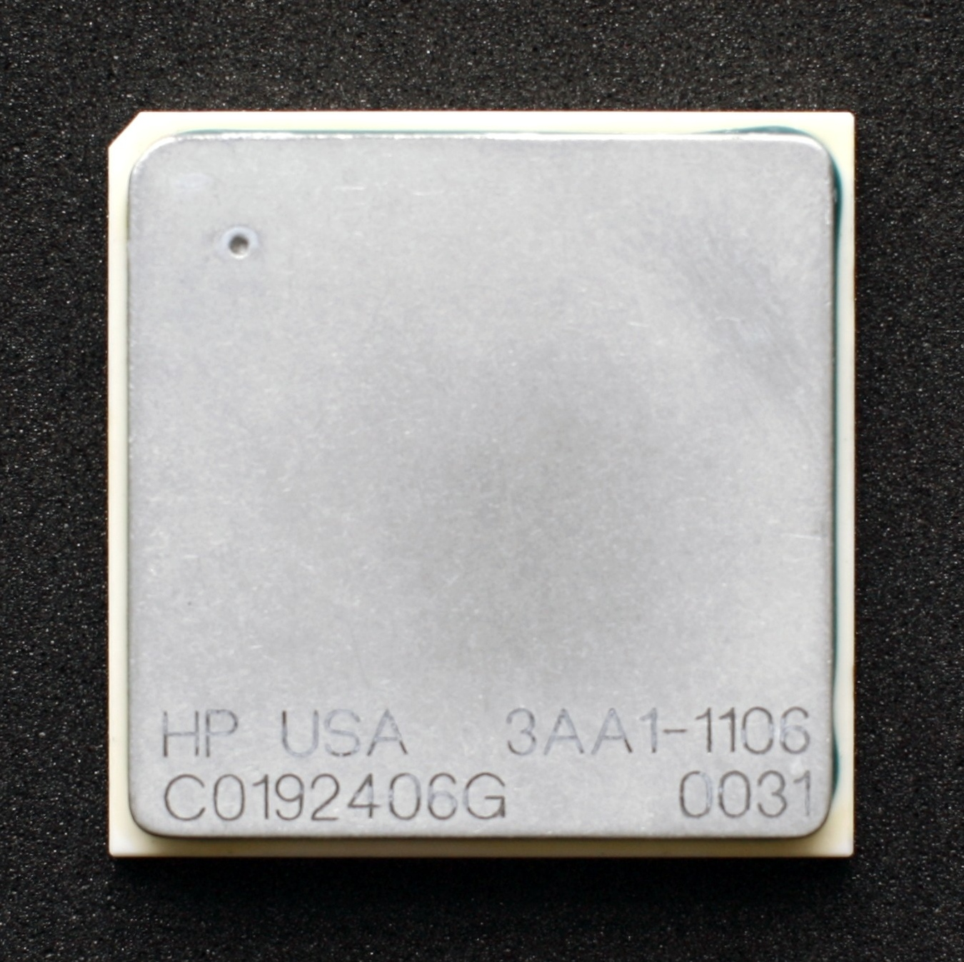 CPU Hewlett-Packard PA-8600